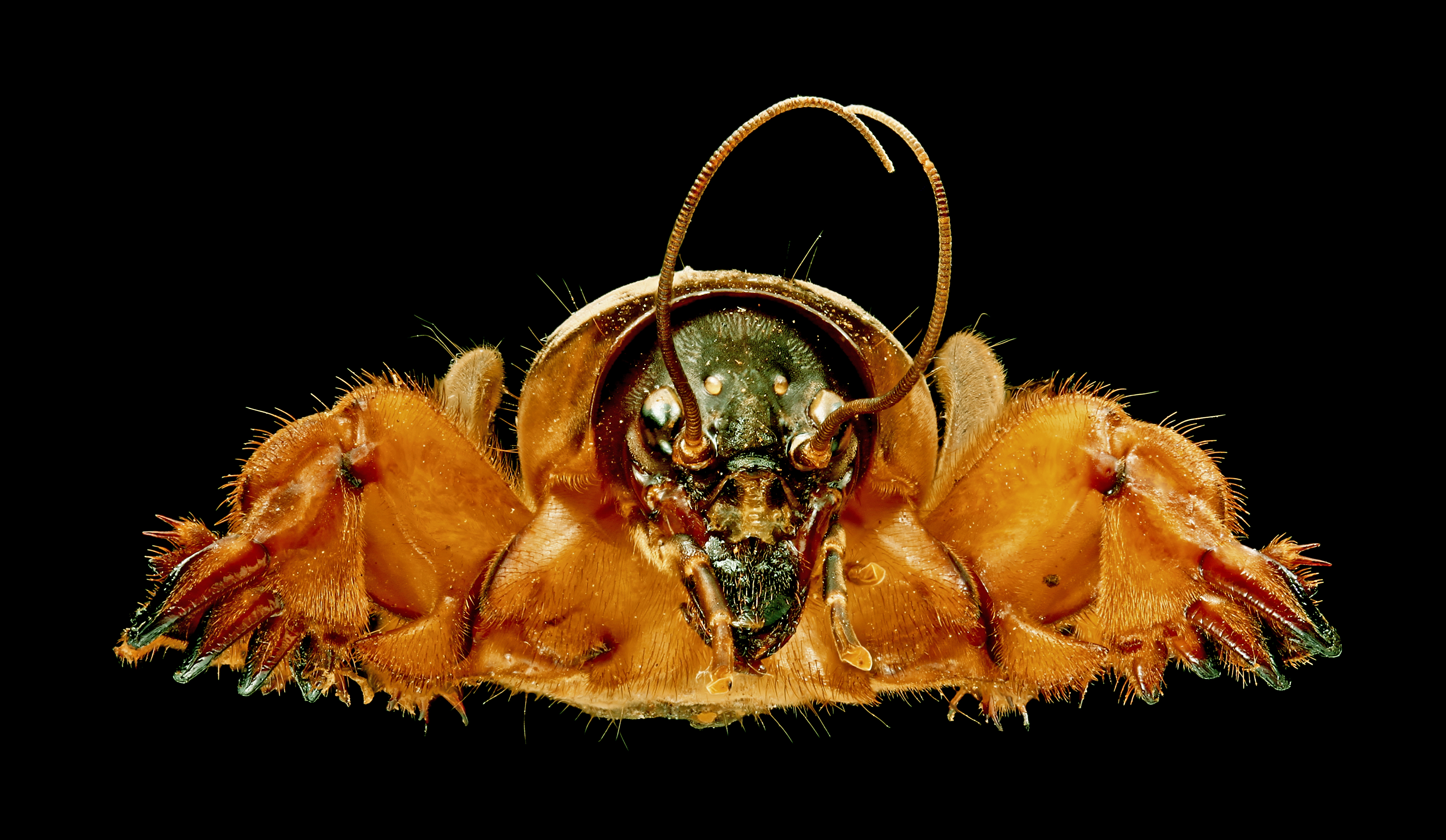 European mole cricket; Originating from Gaggenau, Germany. Own collection, therefore not geocoded.